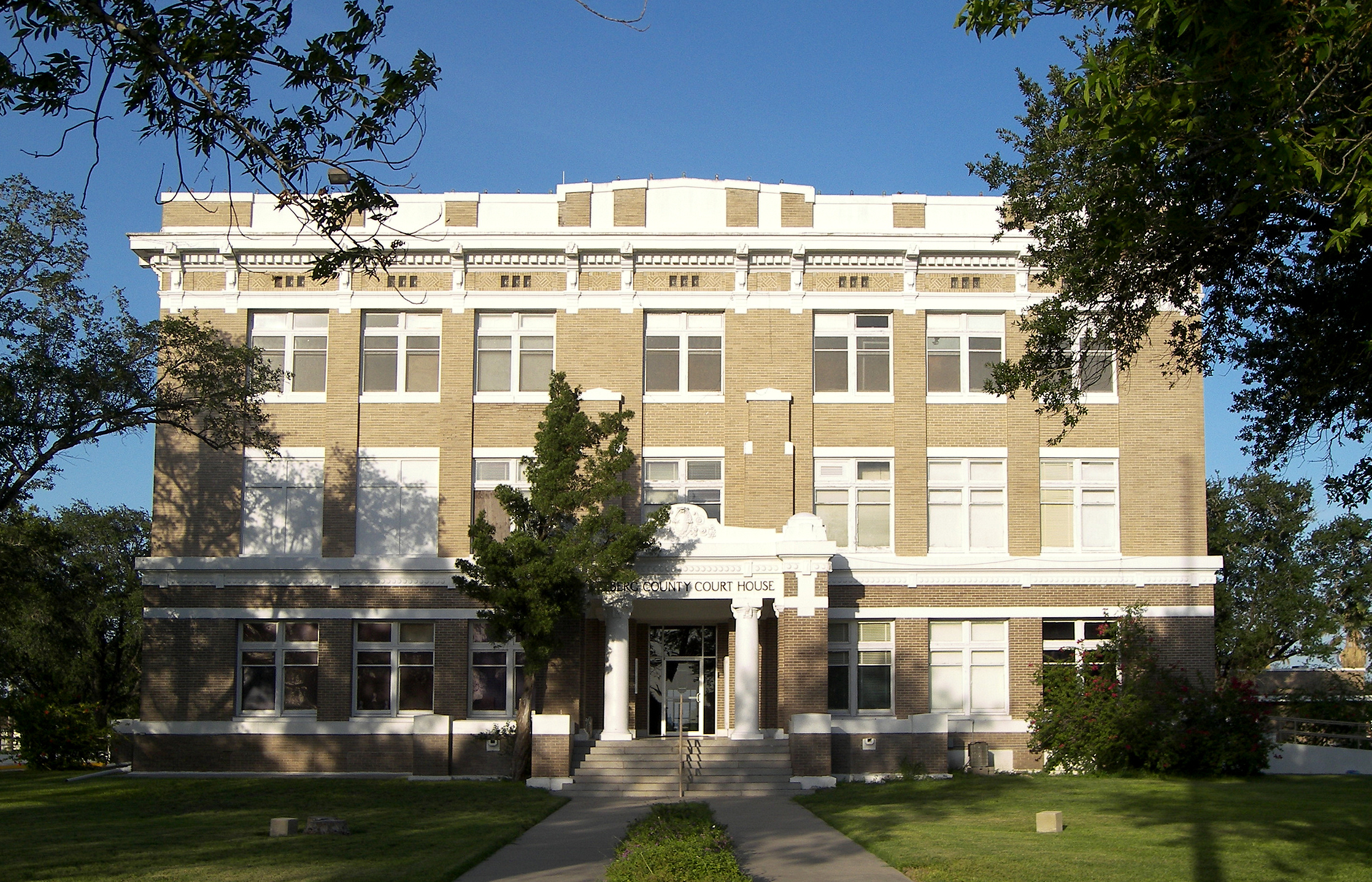 The Kleberg County, Texas courthouse located in Kingsville, Texas, United States. The courthouse, designed by Atlee B. Ayres was listed on the National Register of Historic Places on May 10, 2010